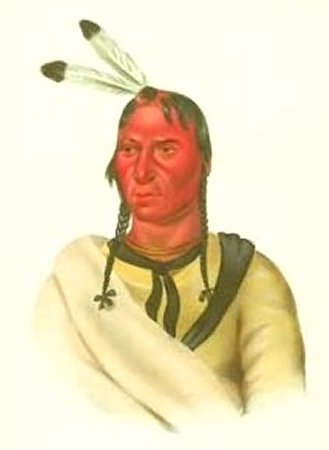 Chief Sleepy Eye of the Sisseton Sioux (painted by Charles Bird King, 1824)